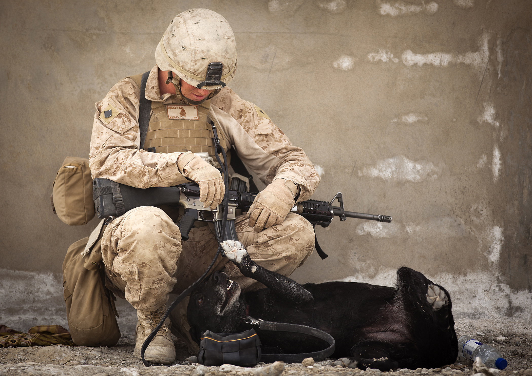 U.S. Marine Lance Cpl. Evan Frickey, a dog handler with 3rd Marine Regiment, plays with Cookie, an improvised explosive device detection dog, while providing security at the Safar School compound, Garmsir district, Afghanistan, on March 18, 2012.